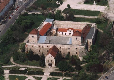 Várpalota, castle, Hungary, aerialphotography